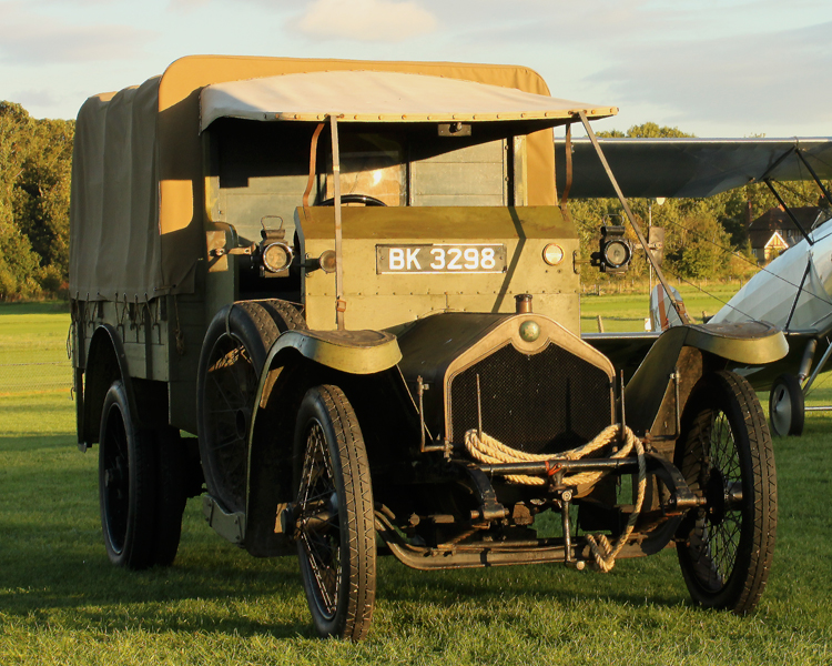 Crossley 20-25 from Shuttleworth Collection